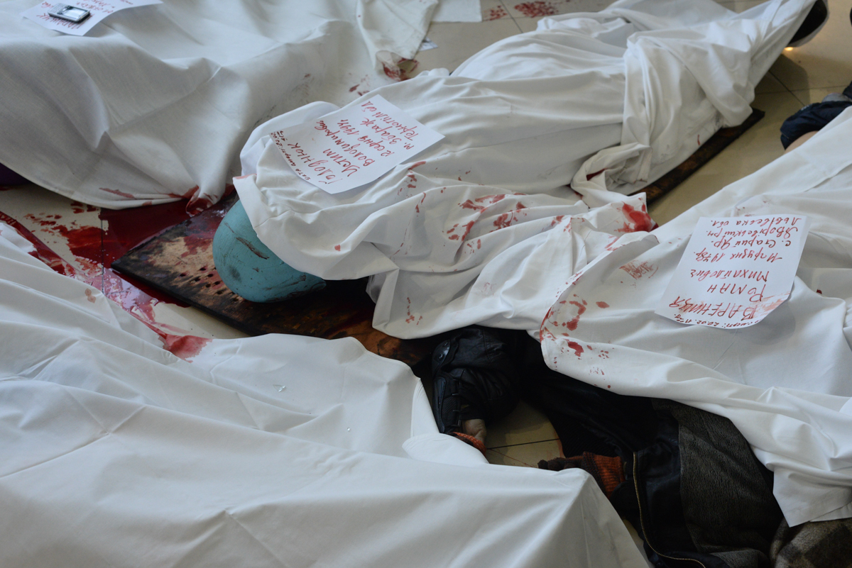 Bodies of protesters in the hotel Ukraine lobby: Yu. Paraschuk, U. Holodnyuk and R. Varenitsya. Events of February 20, 2014 in Kiev